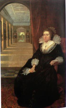 Aletheia Howard depicted with the Arundel's picture gallery in the background